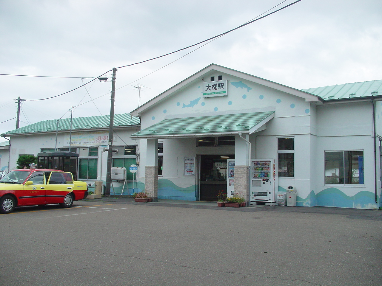 Ōtsuchi Station